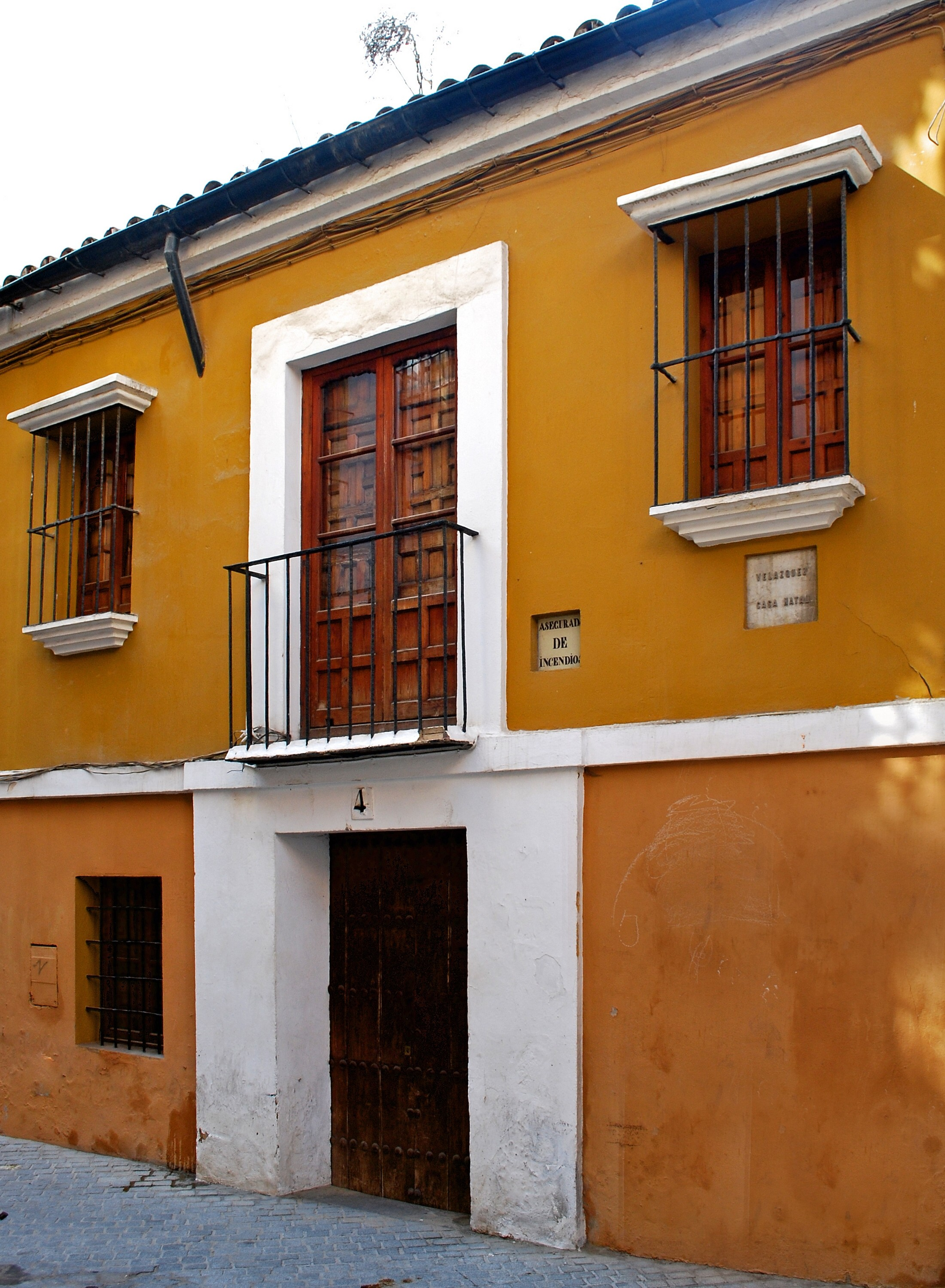 Birthplace of Velazquez in Seville